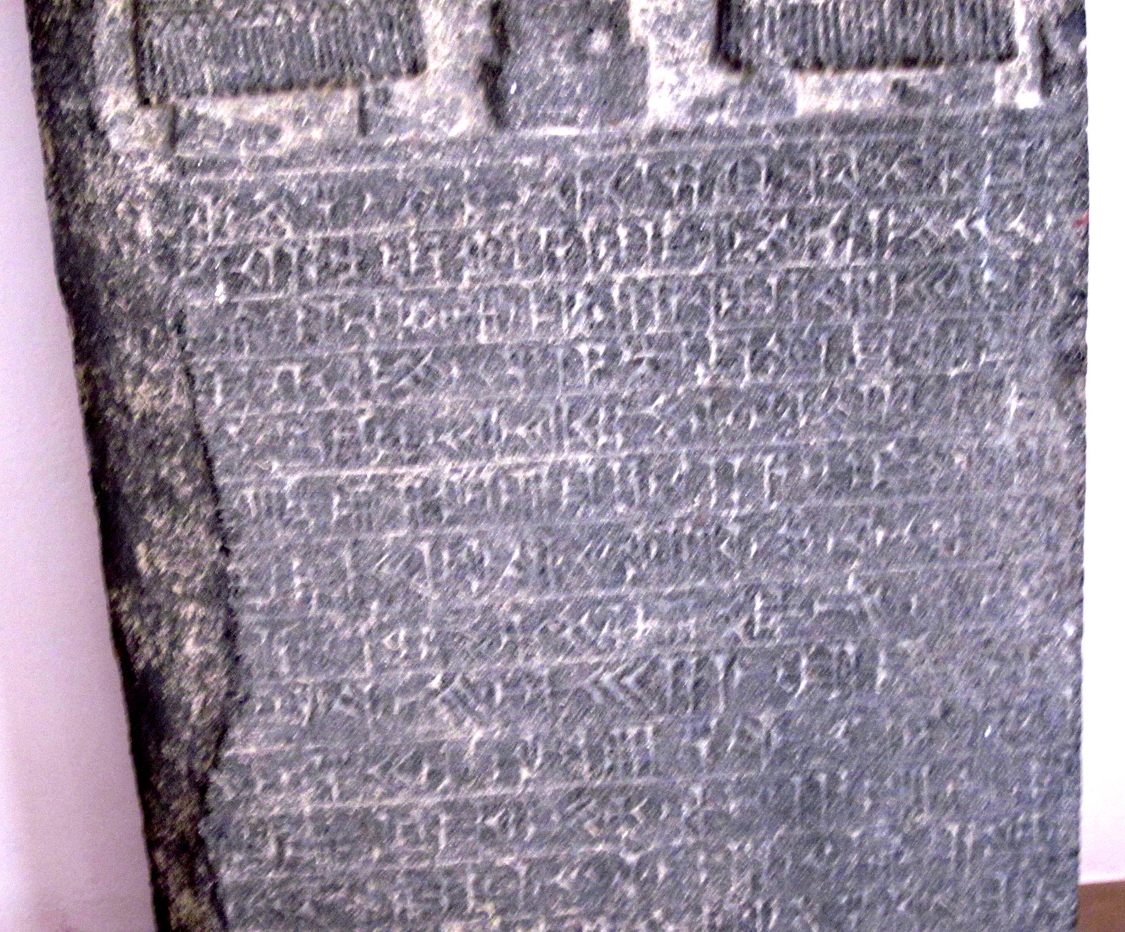 Photograph from Antakya Archaeological Museum